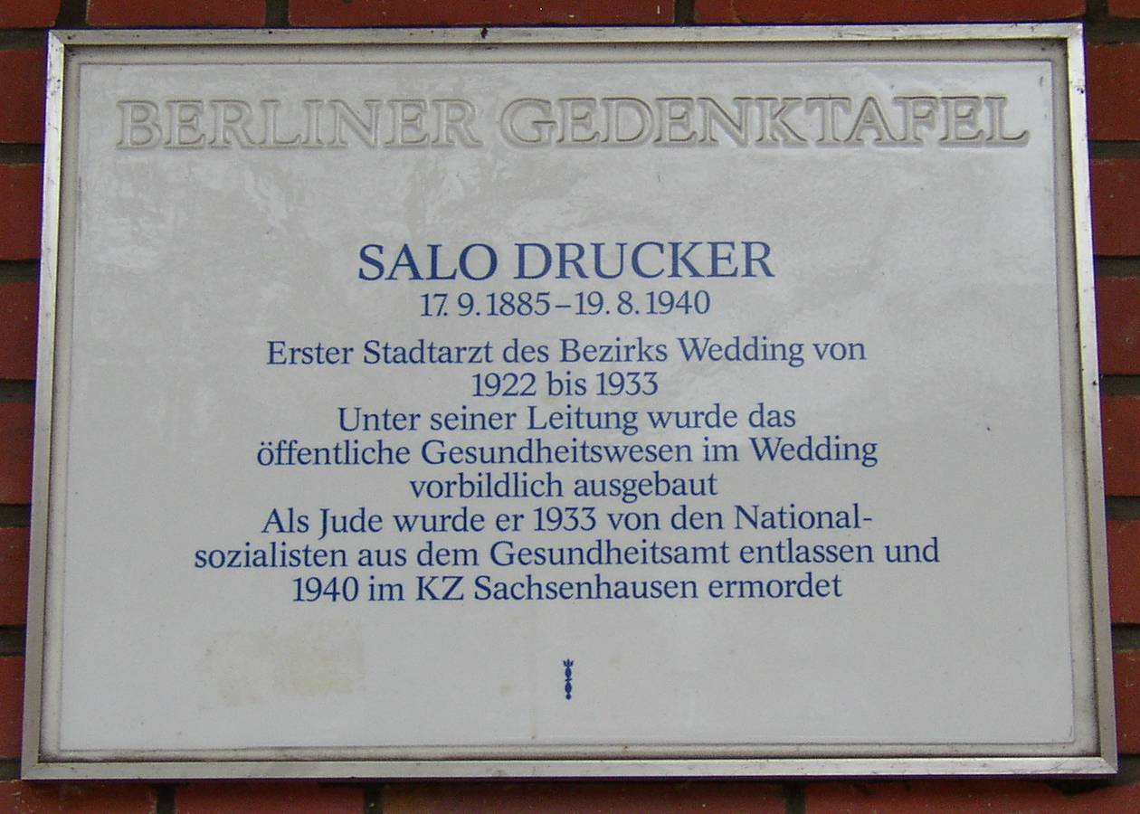 Berlin memorial plaque for Salo Drucker in Berlin-Wedding, Germany